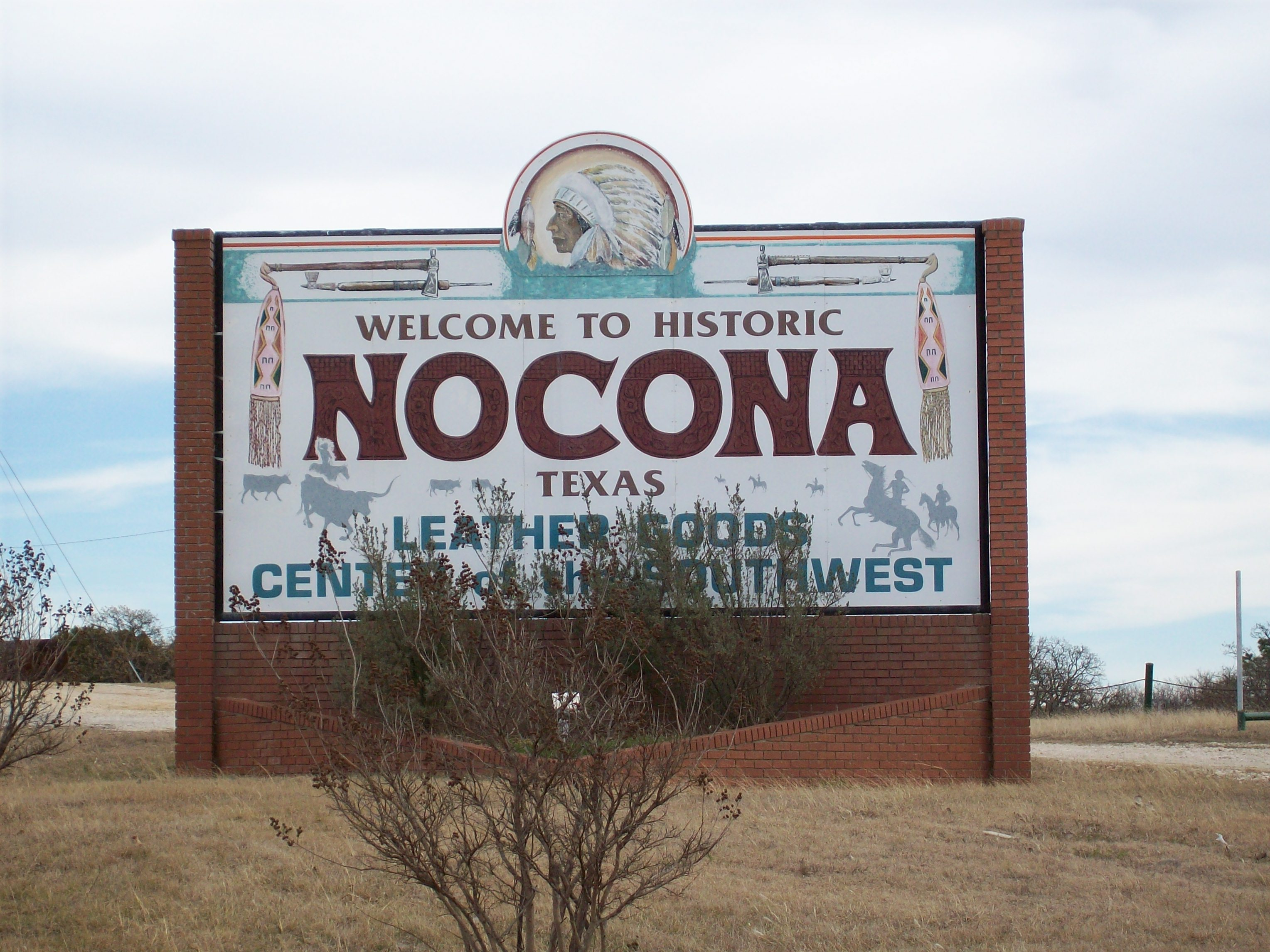 Picture of the Nocona welcome sign